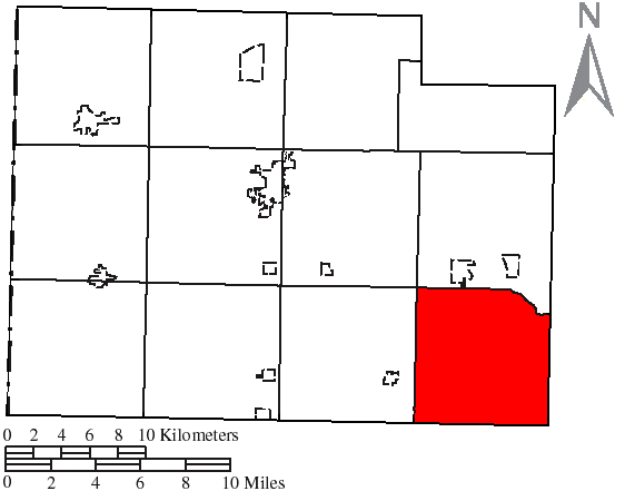 Made by the US Census and modified by myself